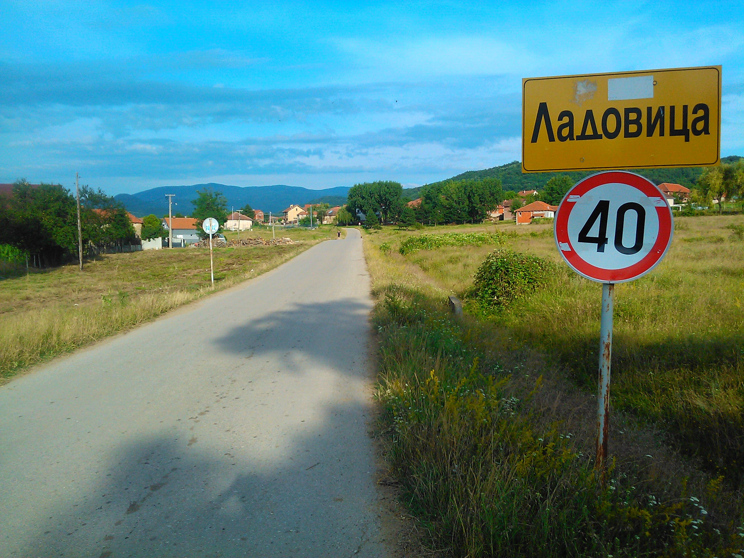 Selo Ladovica 5